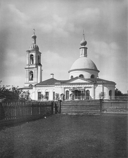 Church of St George in Georgian sloboda, Moscow.